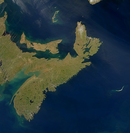 Satellite image of Nova Scotia and surrounding islands.